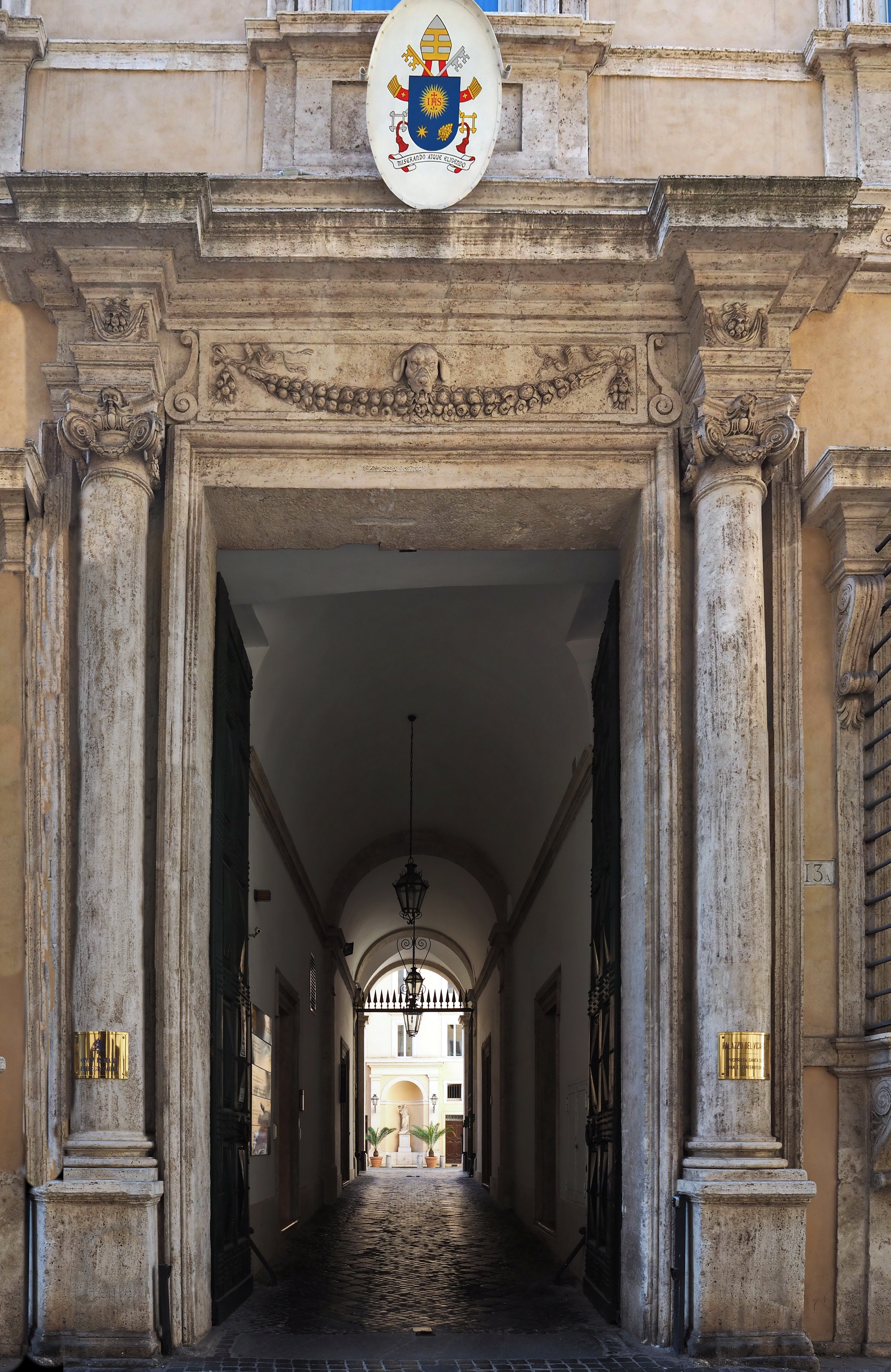 Palazzo Maffei Marescotti (Rome); Entrance in Via della Pigna